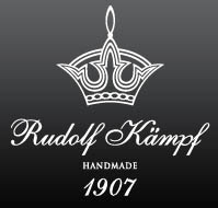 "Rudolf Kämpf" manufacture logo